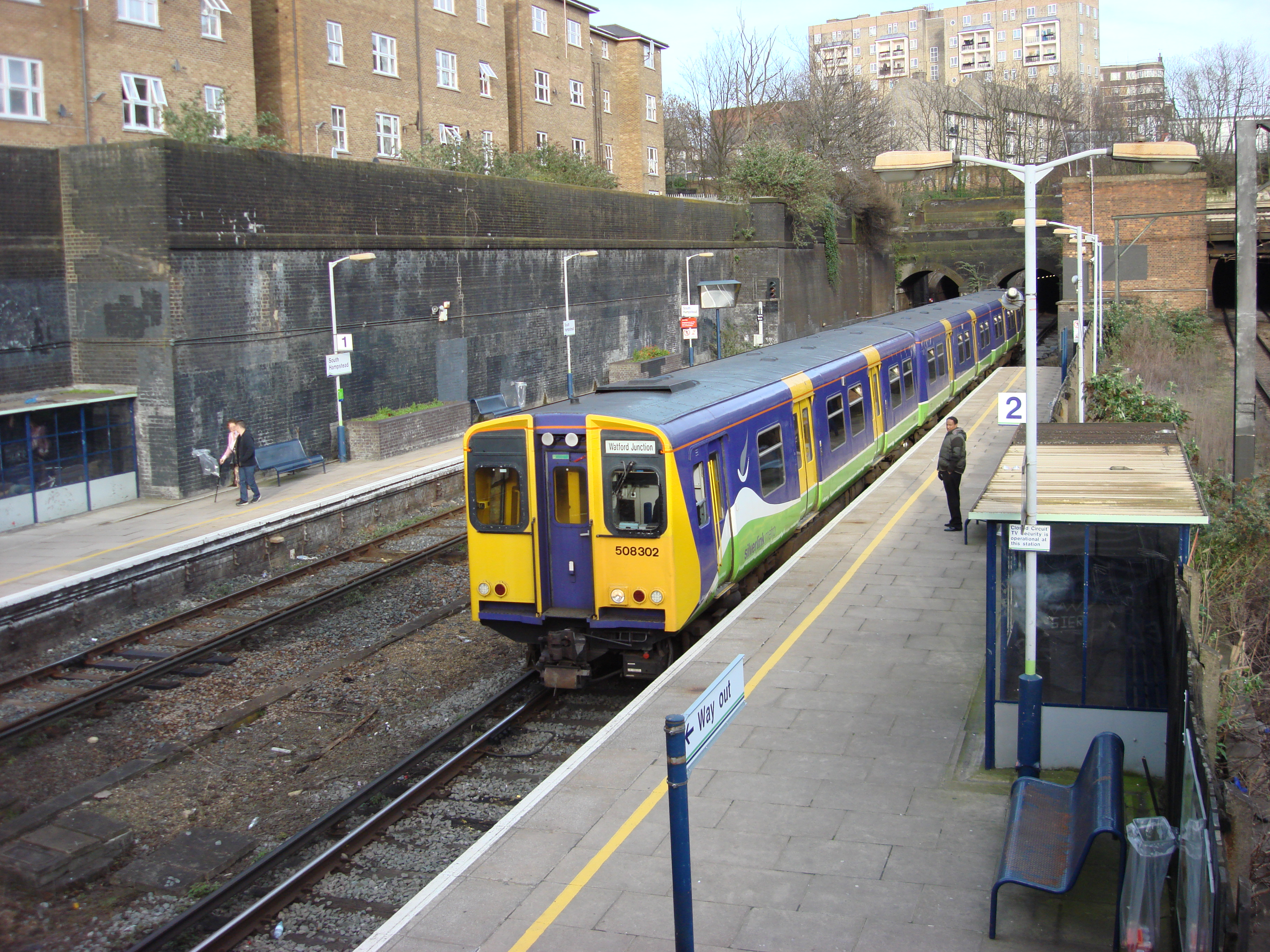 Number 508302 arrives at South Hampstead with a train for Watford Junction